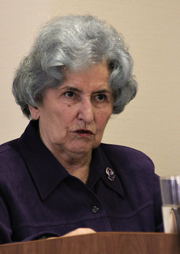 Andeeva Galina Mikhailovna - russian psychologist